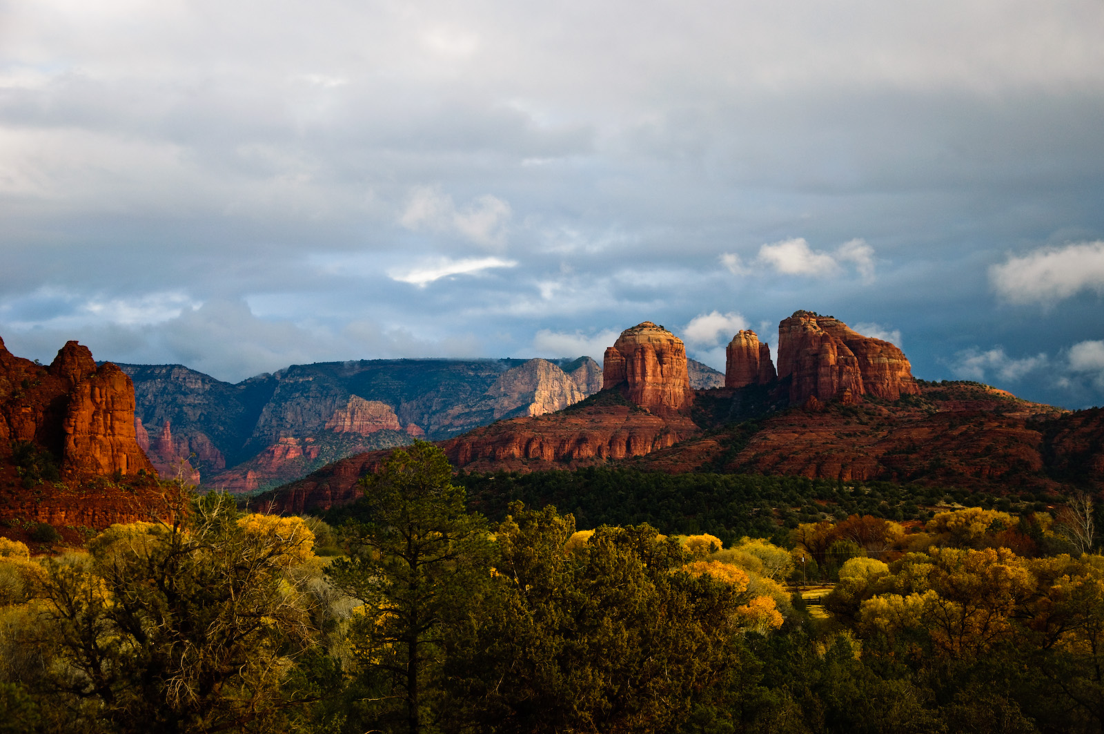 Red Rock State Park, located near Sedona, Arizona, featured some very beautiful landscape. The dark clouds really brought out the shades of red in the rocks. View is north towards Cathedral Rock. View On Black